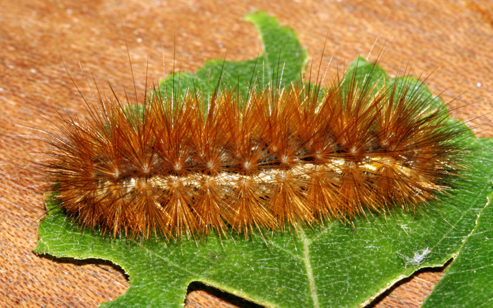 Buff Ermine moth (Spilarctia luteum) caterpillar. Caterpillar collected in Brighton, East Sussex, UK in Sep 2010.